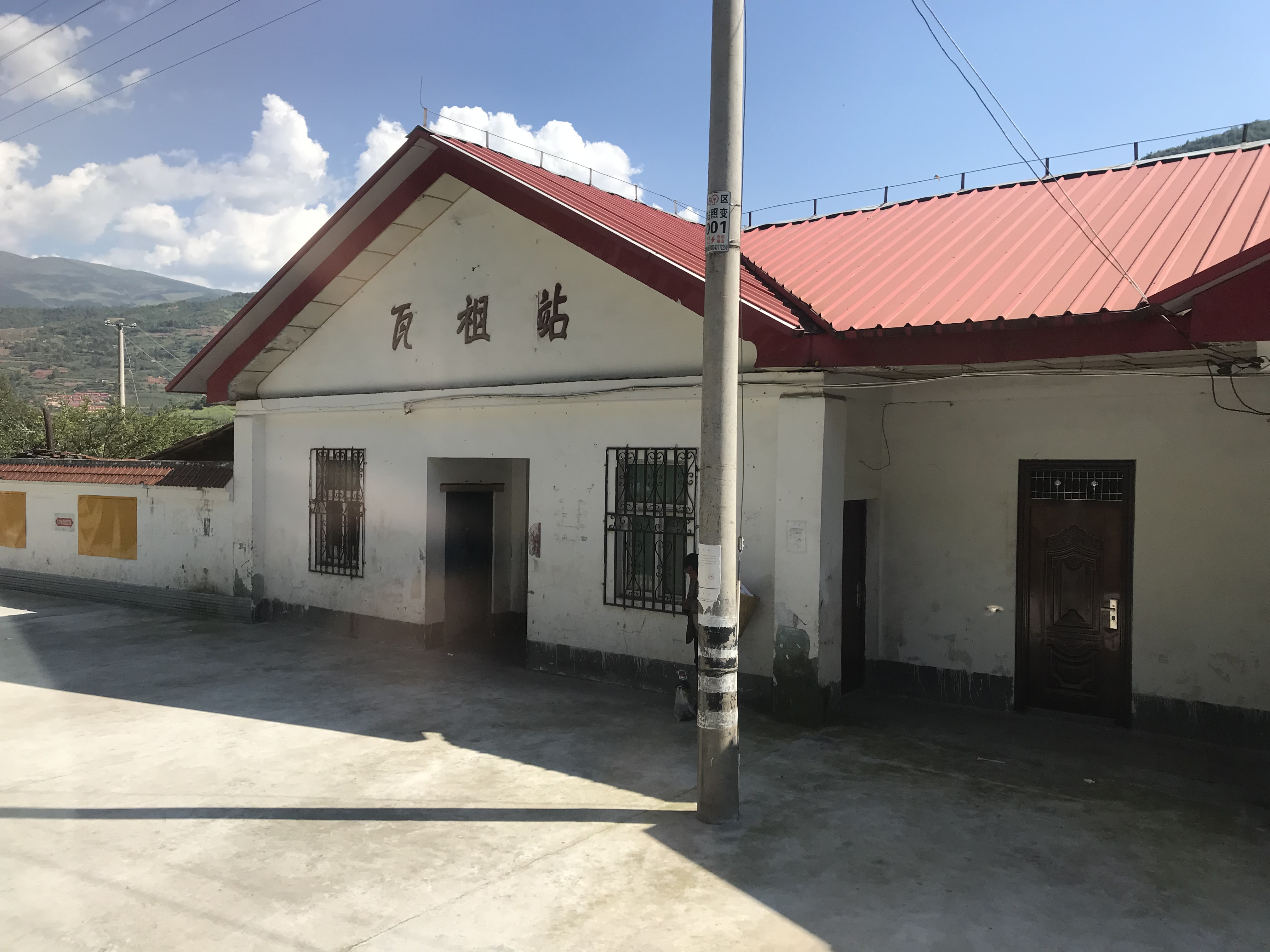 201908 Station Building of Wazu